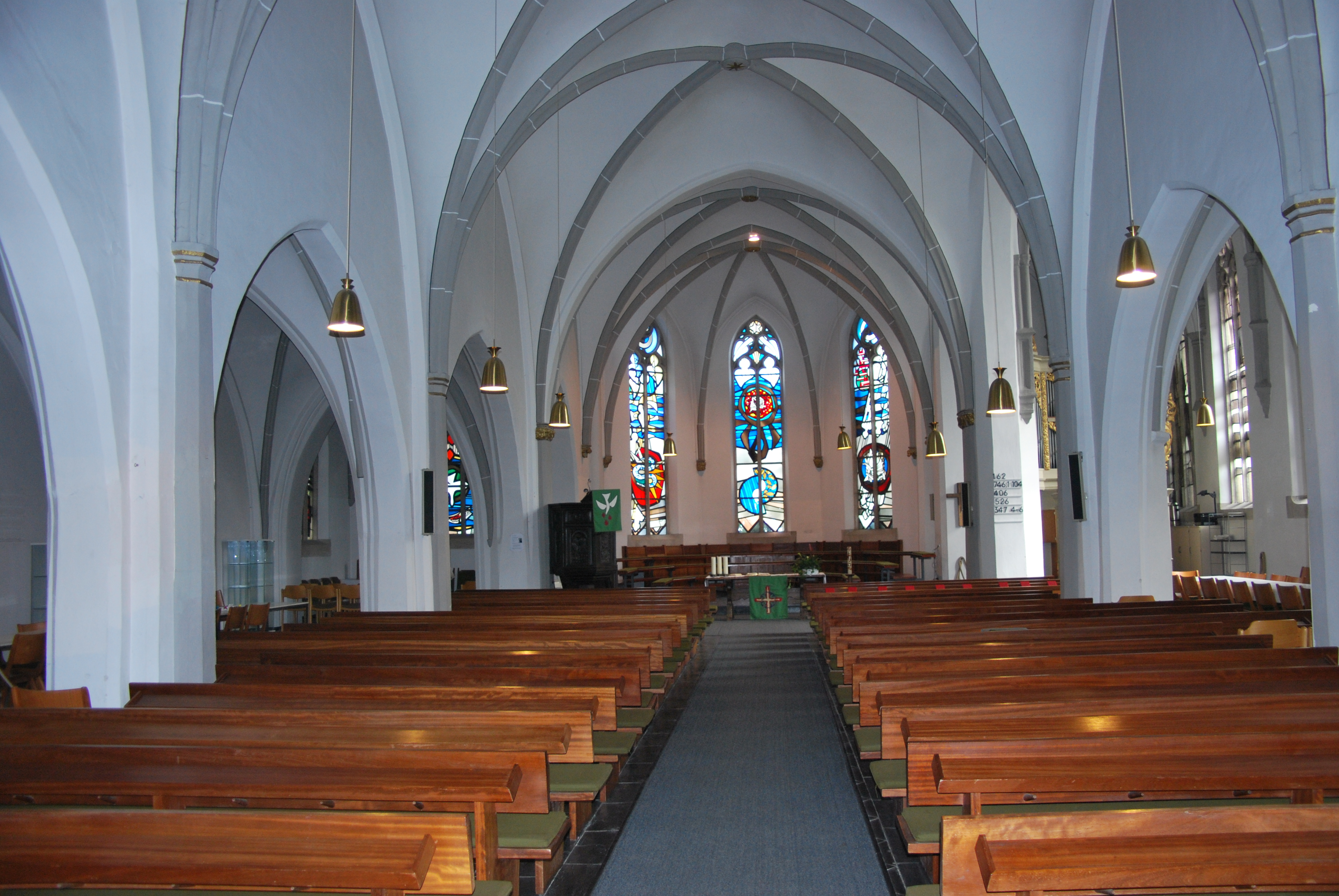 Inside the protestant church Orsoy.